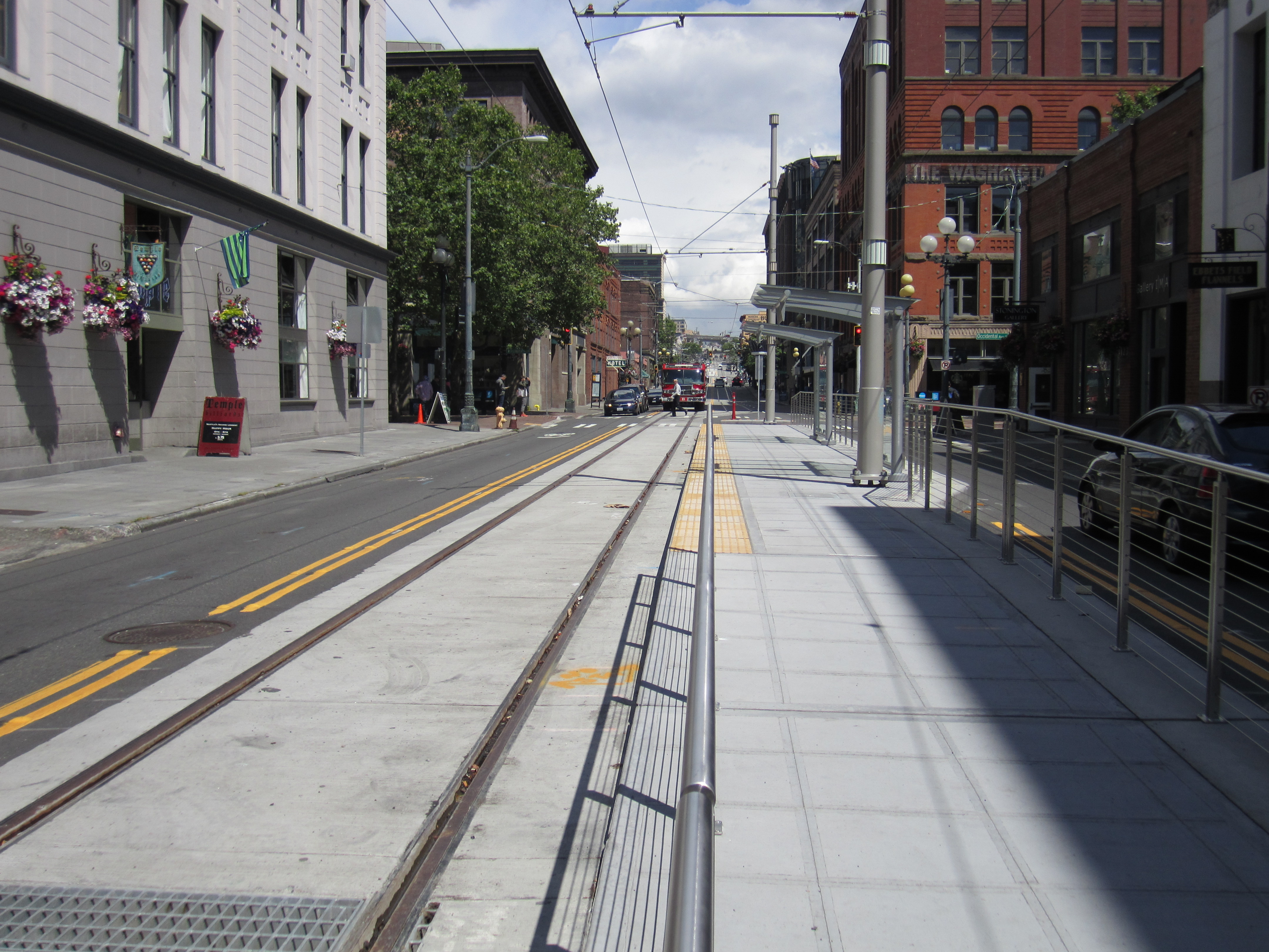 Pioneer Square Streetcar Station. Looking east on S Jackson Street.